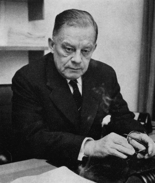 Photograph of the Finnish politician and governor Kaarlo Hillilä (1902–1965).